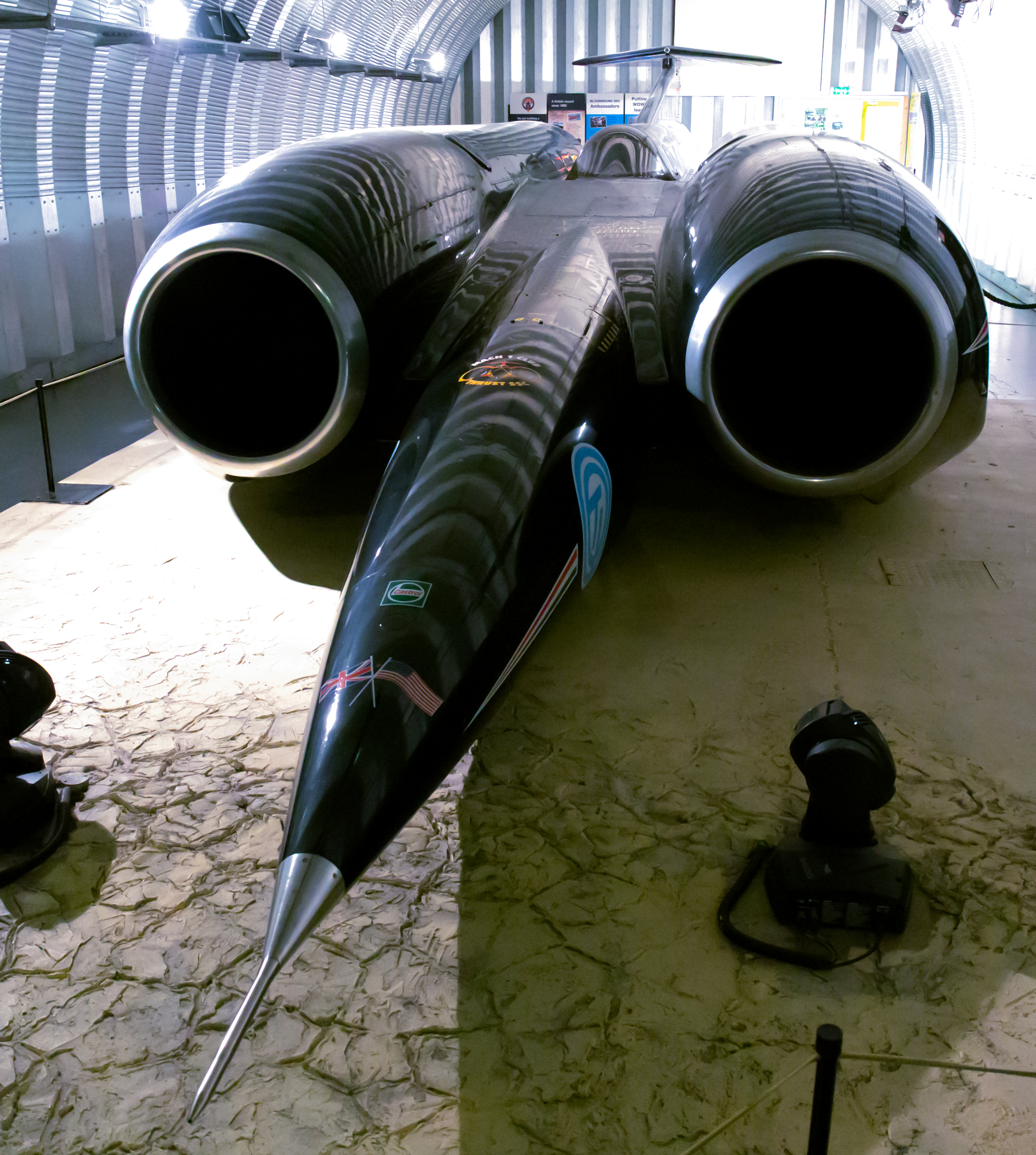 ThrustSSC